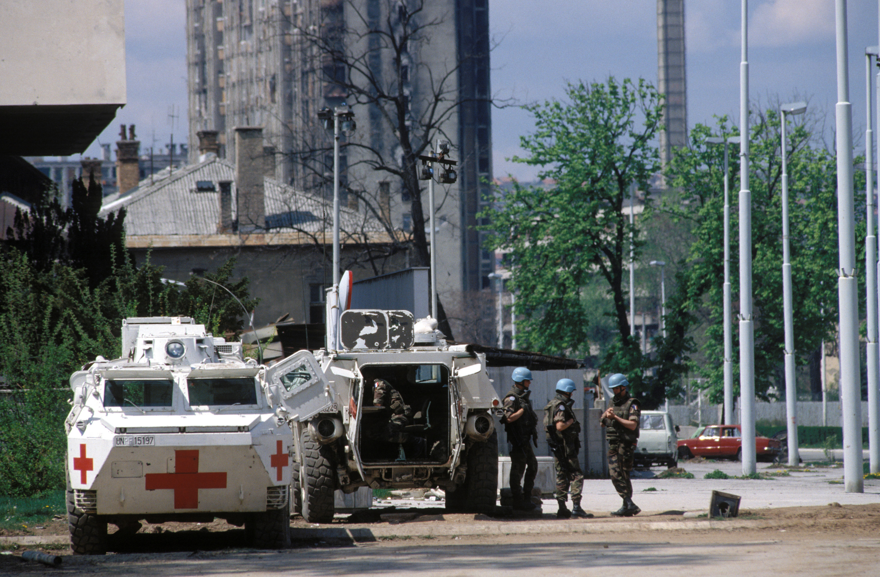 United Nations peacekeepers stand next to armored personnel carriers (APCs) with red cross markings in the midst of war damaged buildings in Sarajevo.